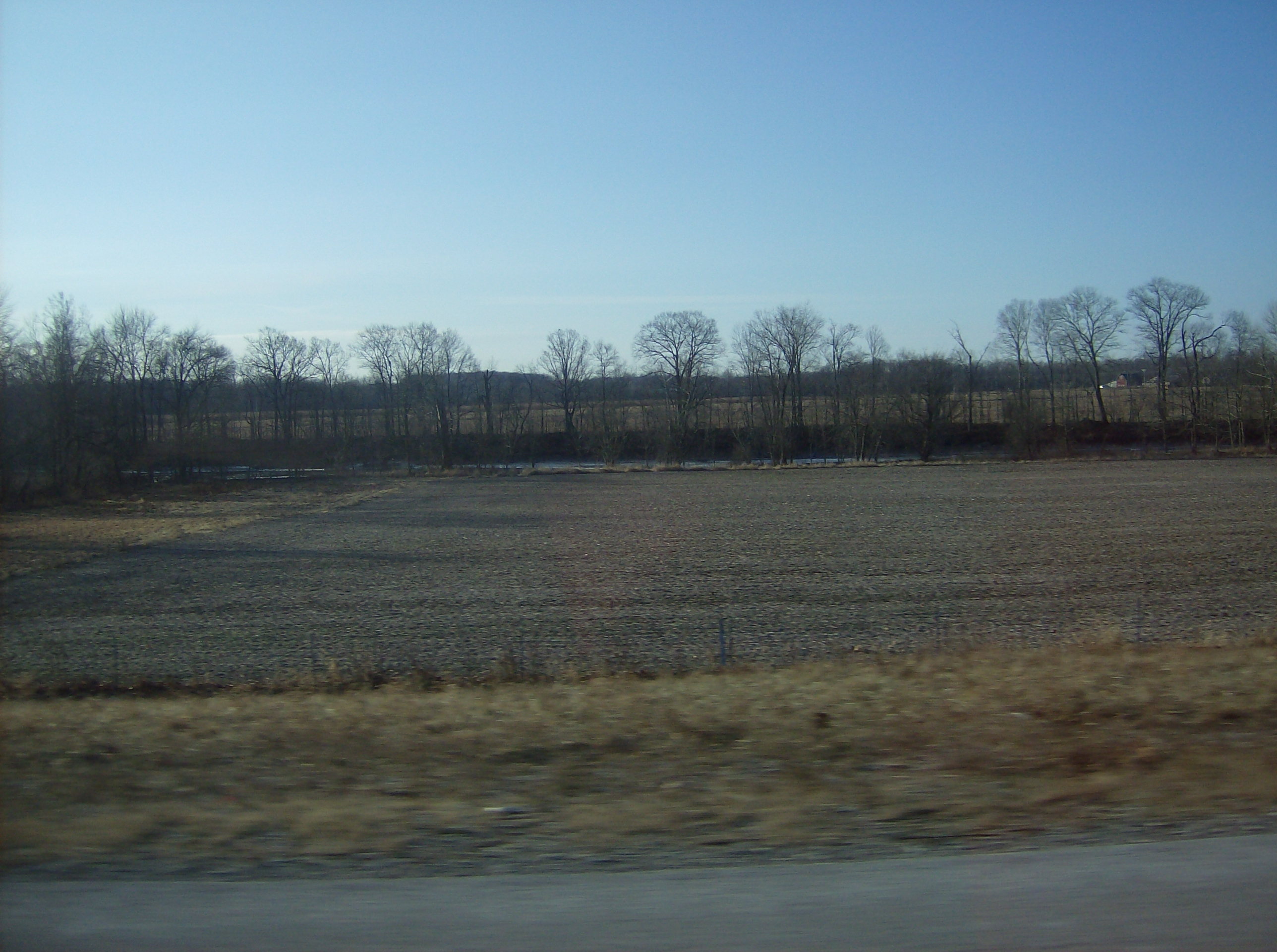 The Wabash River in eastern Dallas Township, Huntington County, Indiana, United States. Picture taken southward from U.S. Route 24.